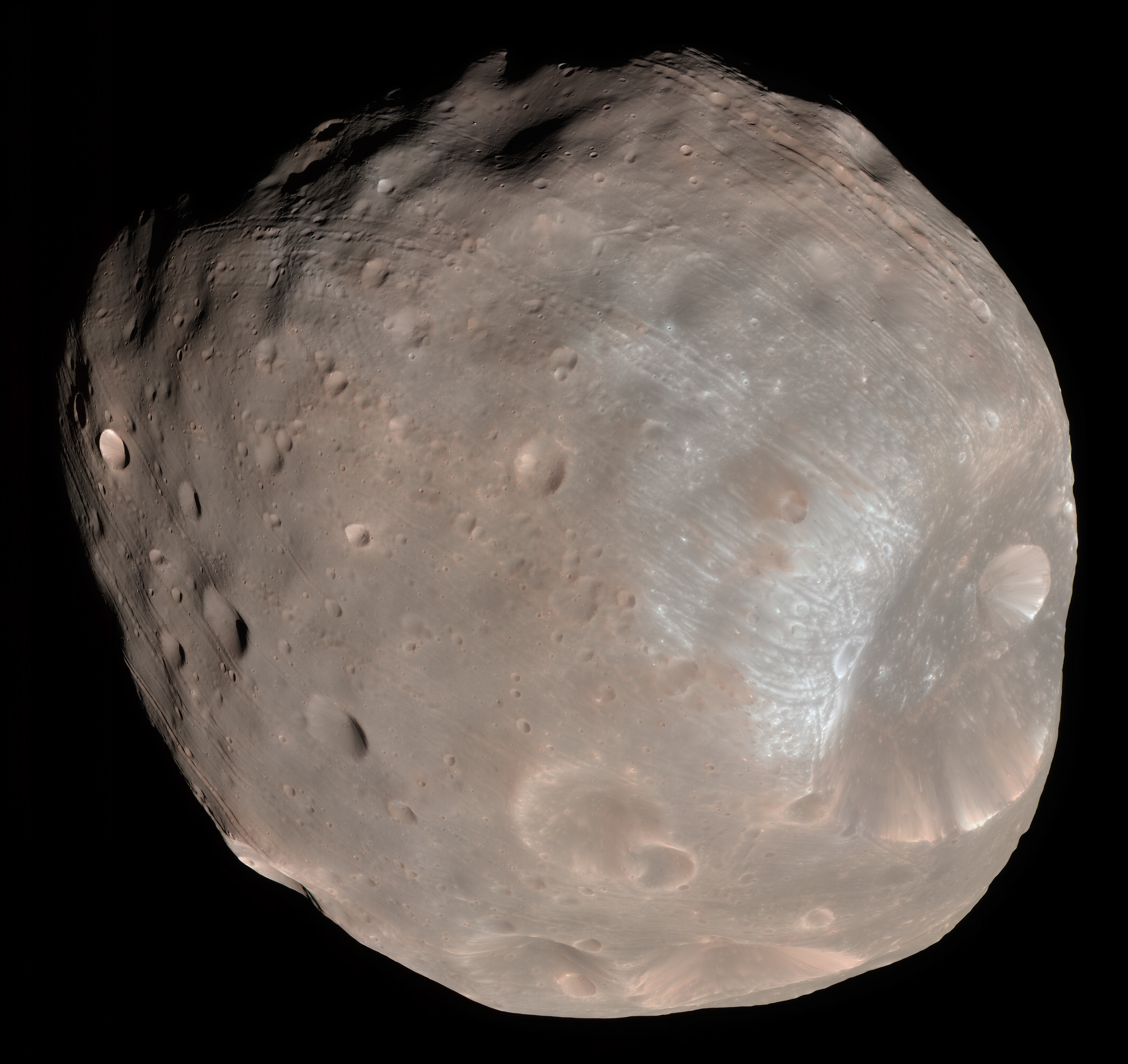 Phobos, one of Mars' moons, imaged by the Mars Reconnaissance Orbiter in 2008.